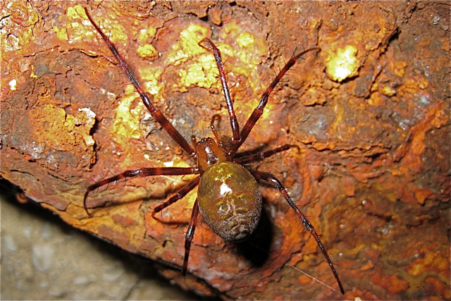 Malham Tarn: European cave spider Meta menardi The European cave spider, Meta menardi, is a long-jawed orb-weaving spider. It is a large, reddish brown spider widely distributed from Scandinavia to North Africa and from Europe to Korea. They are one of the largest spiders found in the United Kingdom with adults reaching up to a 5 cm legspan and 15 mm body length. The adult spiders are photophobic and live in dark places including caves and tunnels.